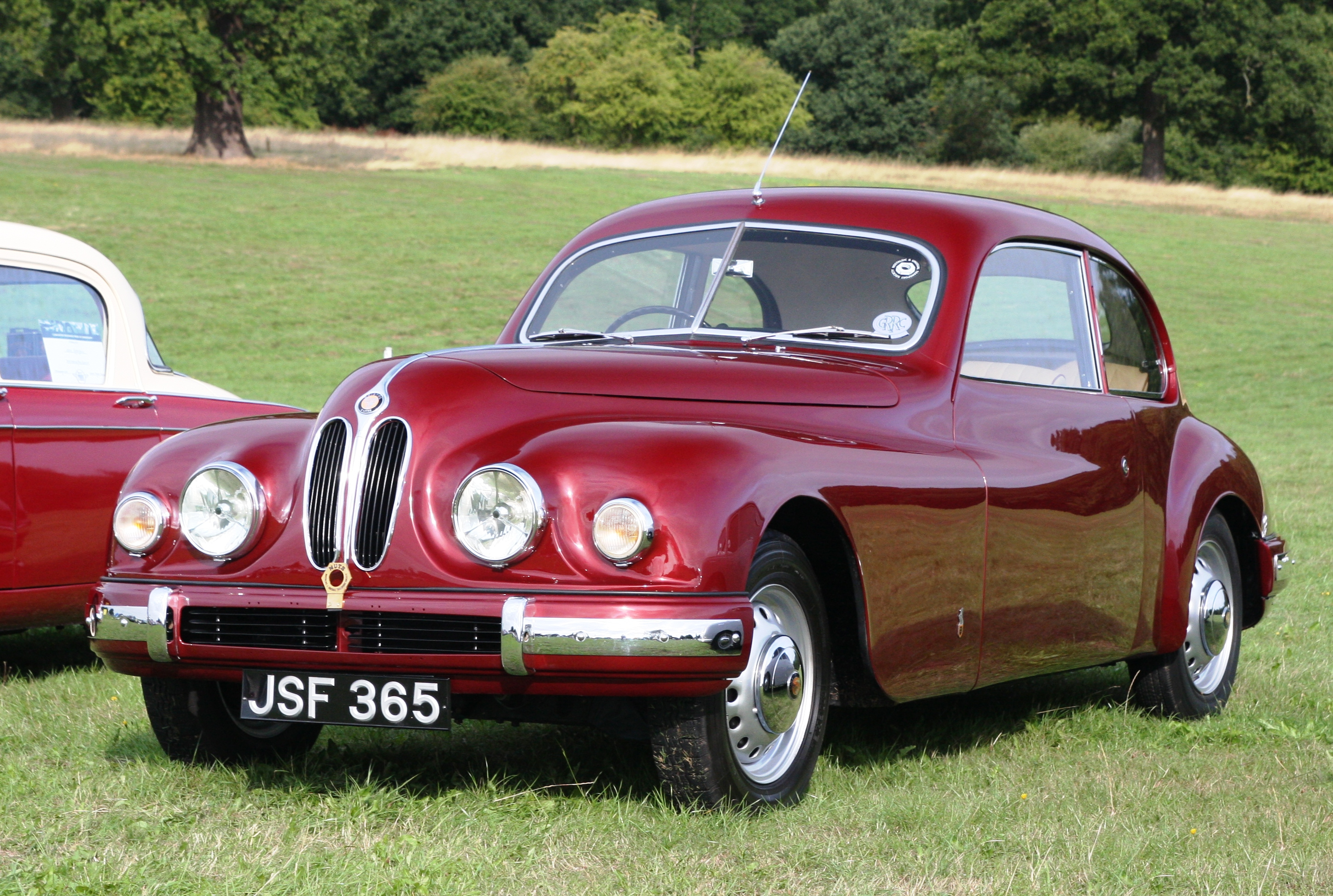 Bristol 401 1971cc registered December 1951